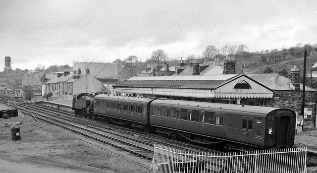 Bodmin North Station View NW: buffer-stops right, Wadebridge left; ex-LSW terminus of branch from Wadebridge, closed completely 30/1/67. Local train for Wadebridge and Padstow in platform, headed by an LMS-type Ivatt Class 2 2-6-2T.